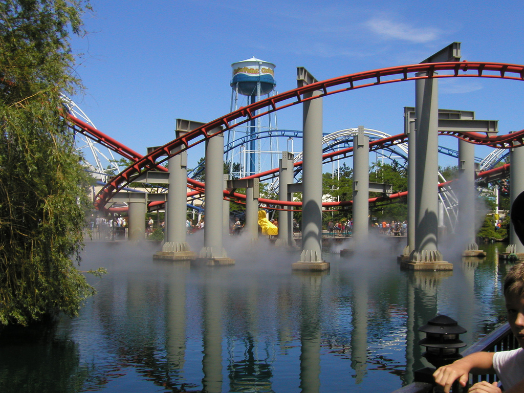 Iron Dragon at Cedar Point with the pre-Top Thrill Dragster colors.